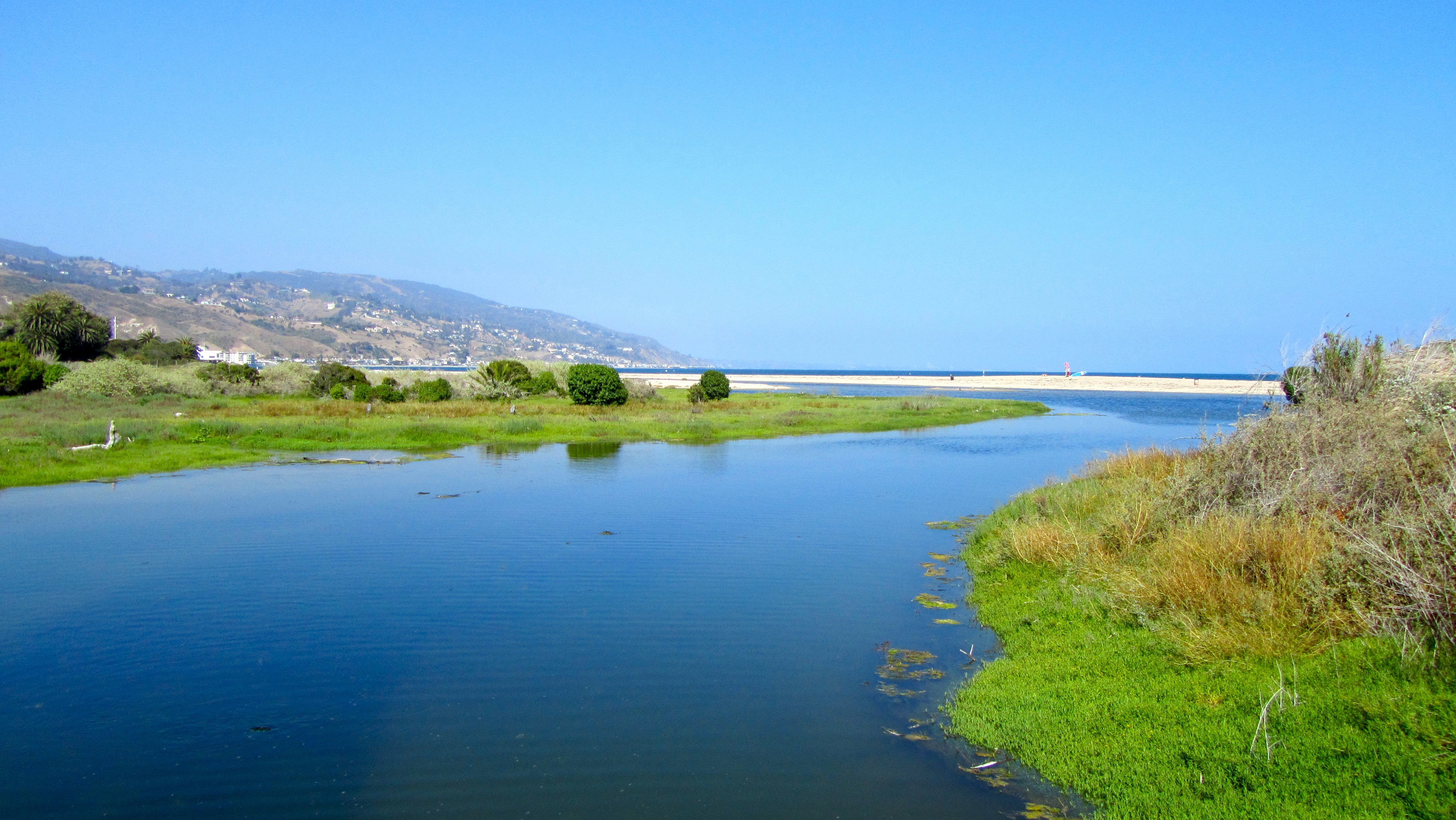 Malibu Lagoon and beach, Malibu, CA, USA